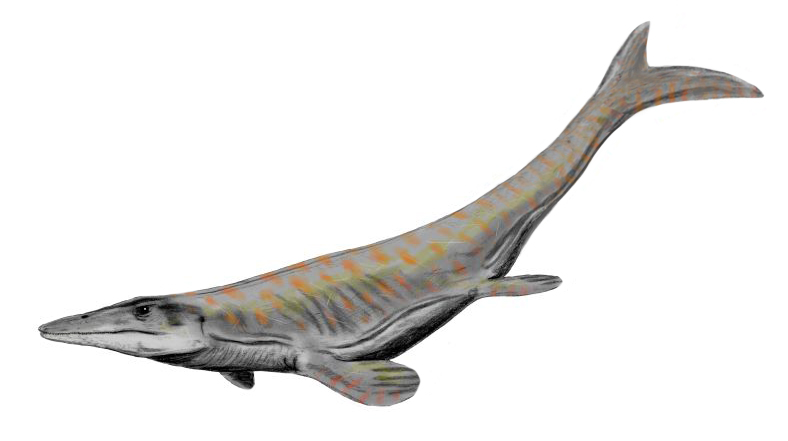 Tylosaurus proriger, a mosasaur from the Late Cretaceous of North America, pencil drawing, digital coloring